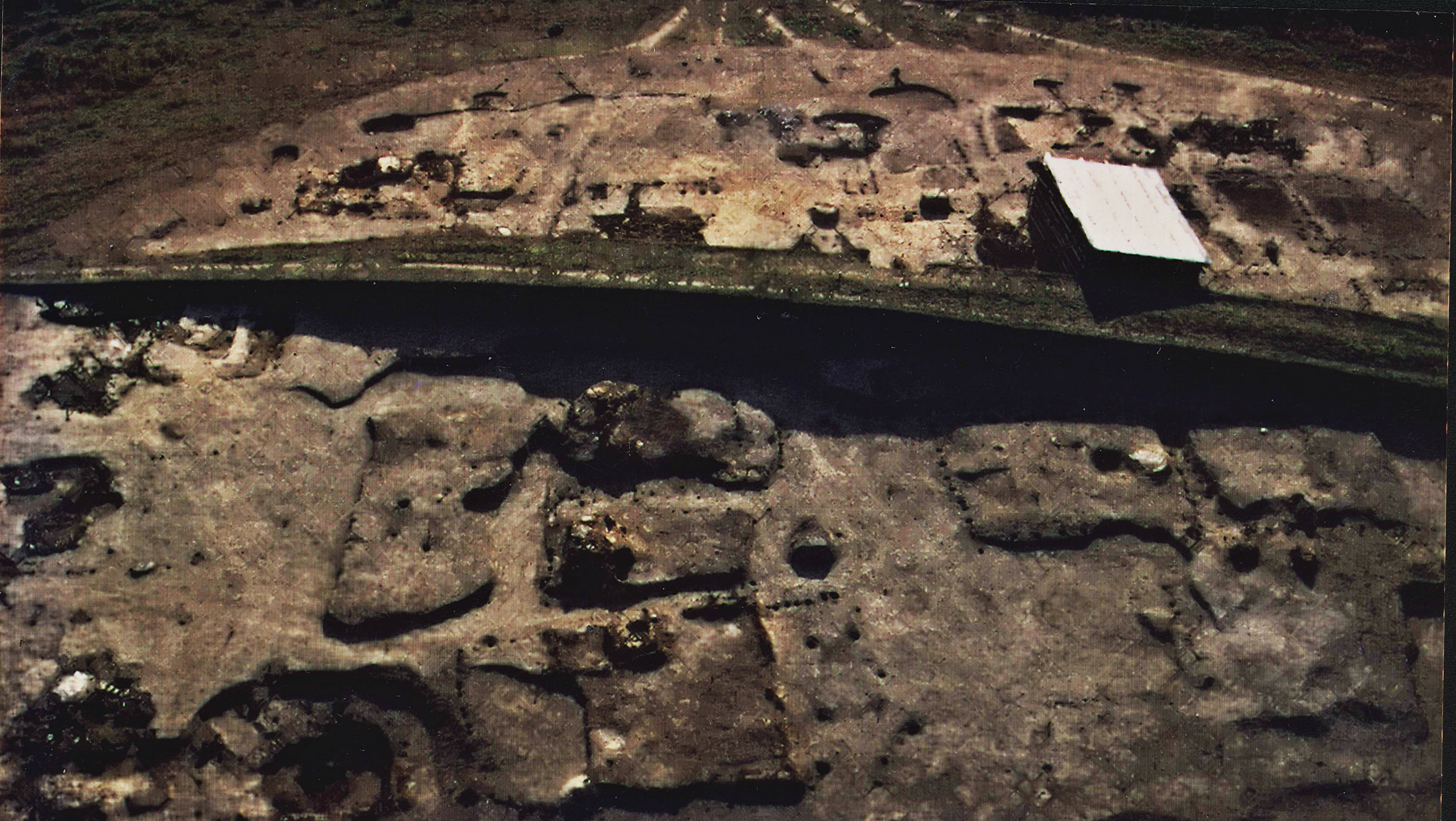 Dolnoslav Lopkite